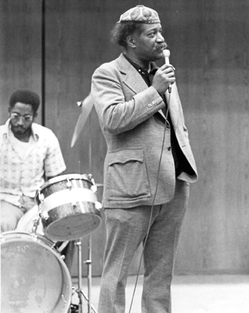 Dzo Brazil